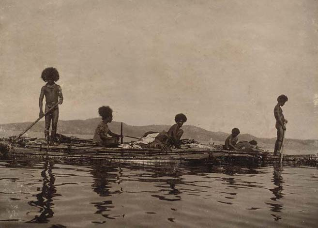 As file